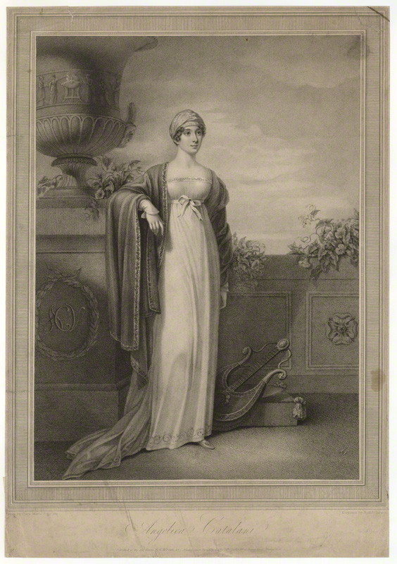 Angelica Catalani by Anthony Cardon, after Clara Maria Pope, stipple engraving, (1812)